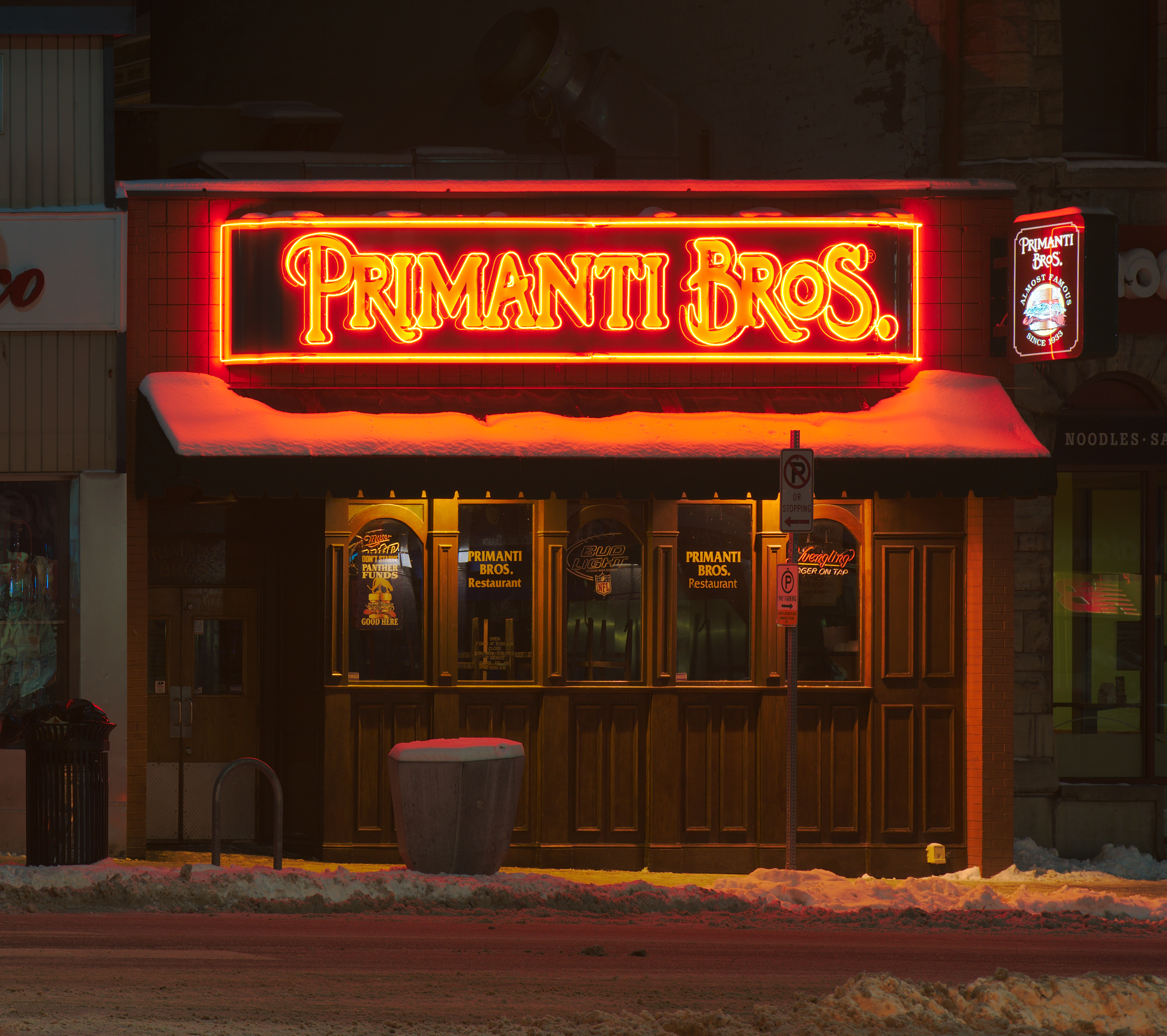 Primanti Bros in Oakland, an almost famous sandwich shop known for putting fries and coleslaw inside sandwiches.